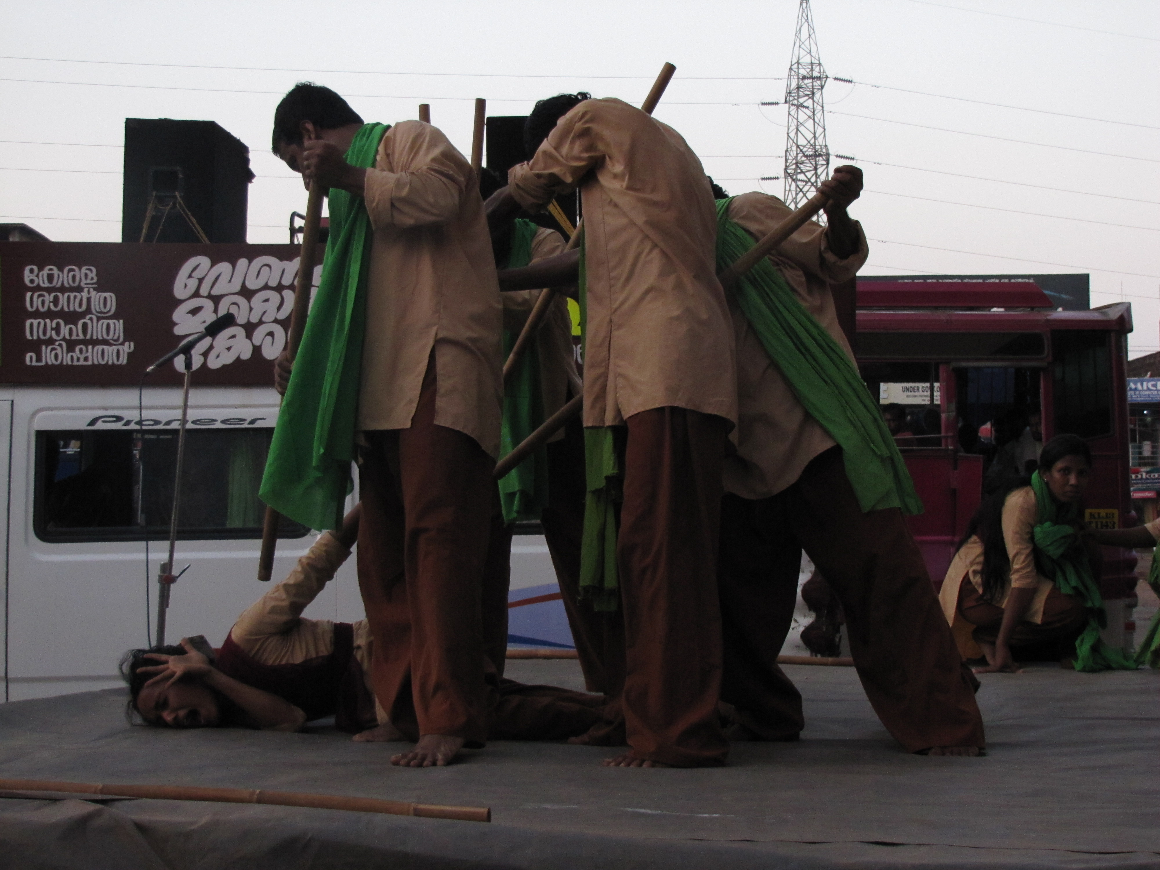 Street Drama played during the KSSP Samsthana Padayathra at Pazhayangadi